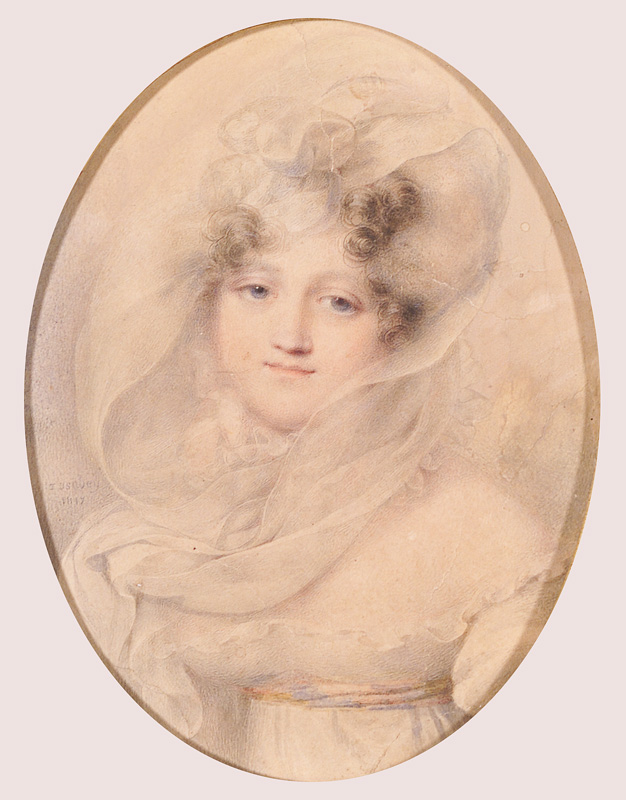 Jean-Baptiste Isabey. Portrait Catherine Bagration-Skavronskaya